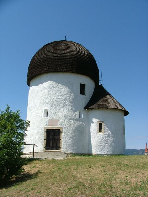 Author: Attila SZÉP Place: Öskü, Hungary, Rotunda Date: 10. July 2004